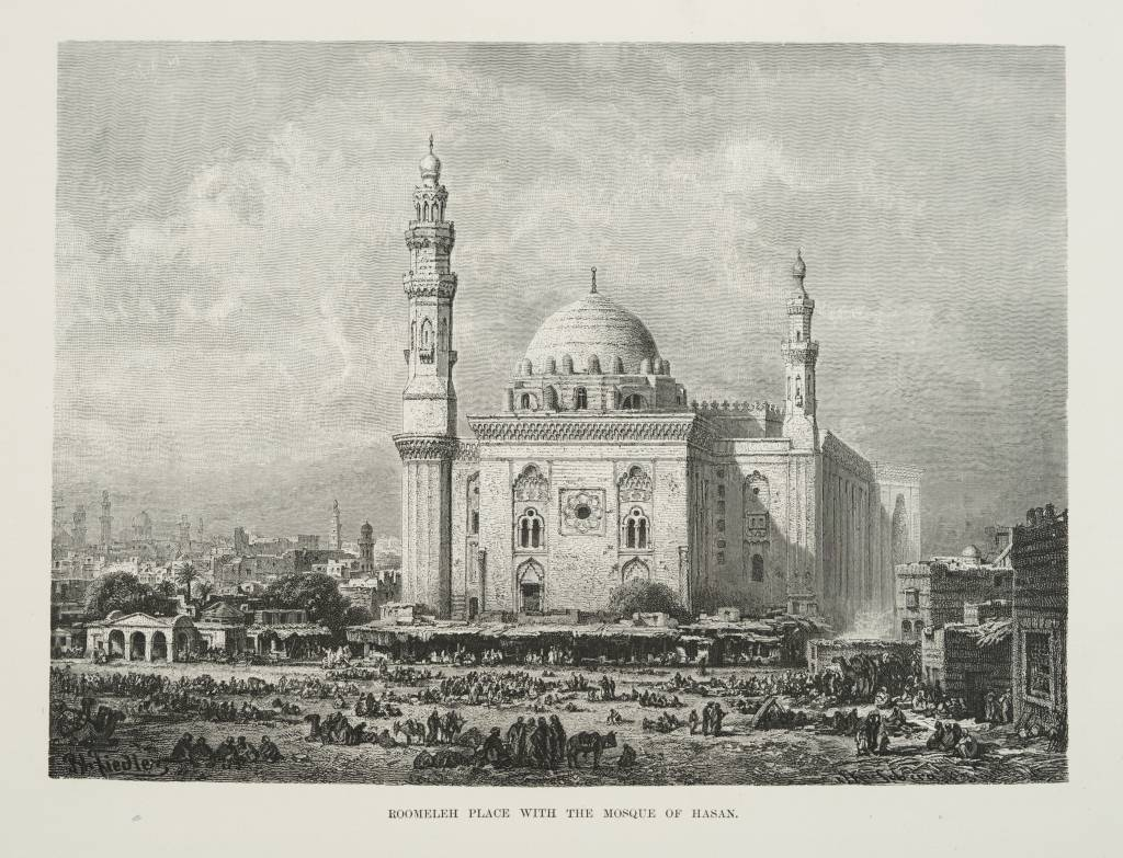 A large palace and mosque.